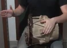 Colombian drum